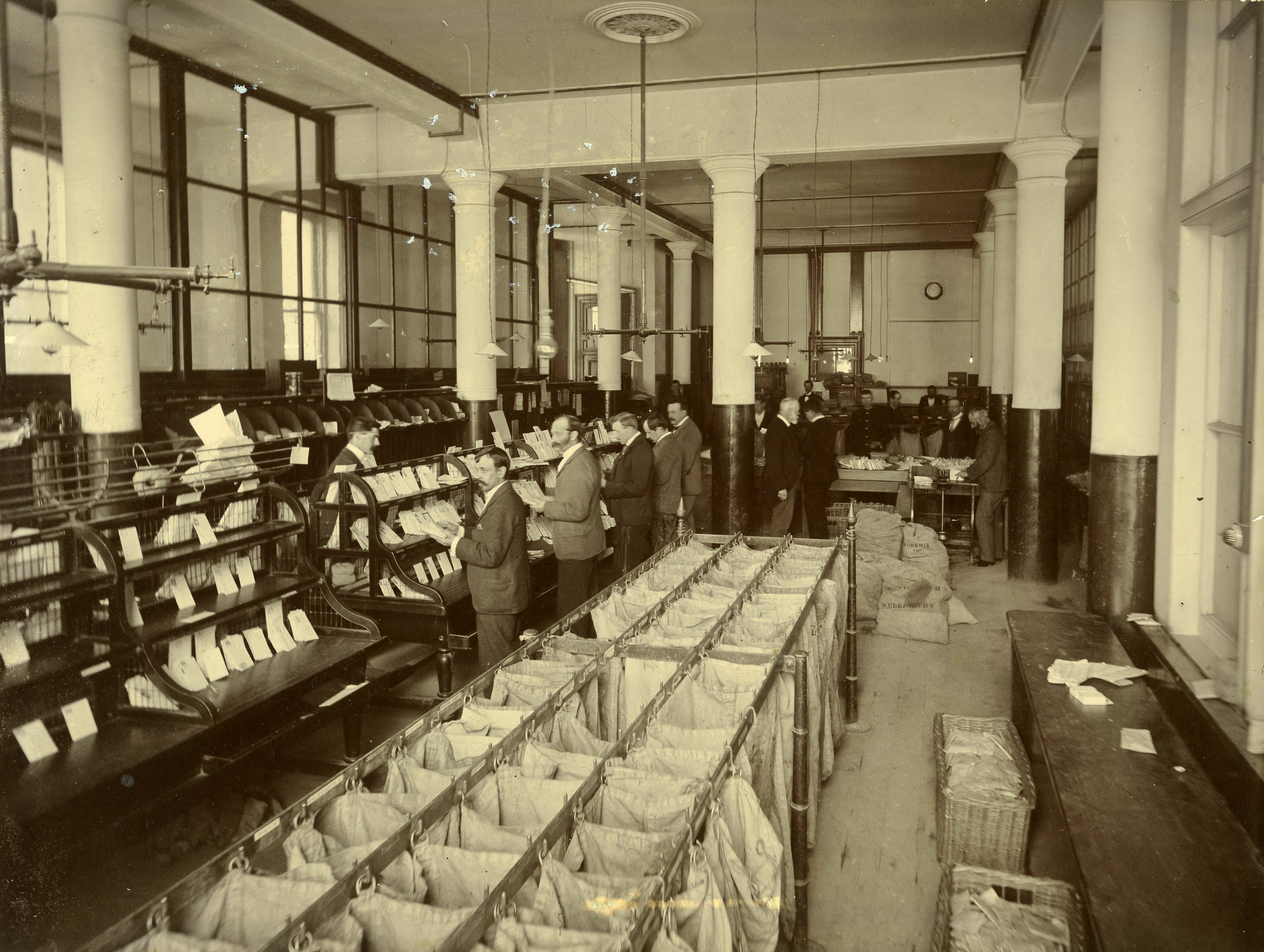 This photograph shows where mail was sorted in Wellington's General Post Office, c.1900s. It comes from a collection of historic Post Office photographs held by Archives New Zealand. Archives Reference: AAME 8106 W5603 Box 126 Material from Archives New Zealand